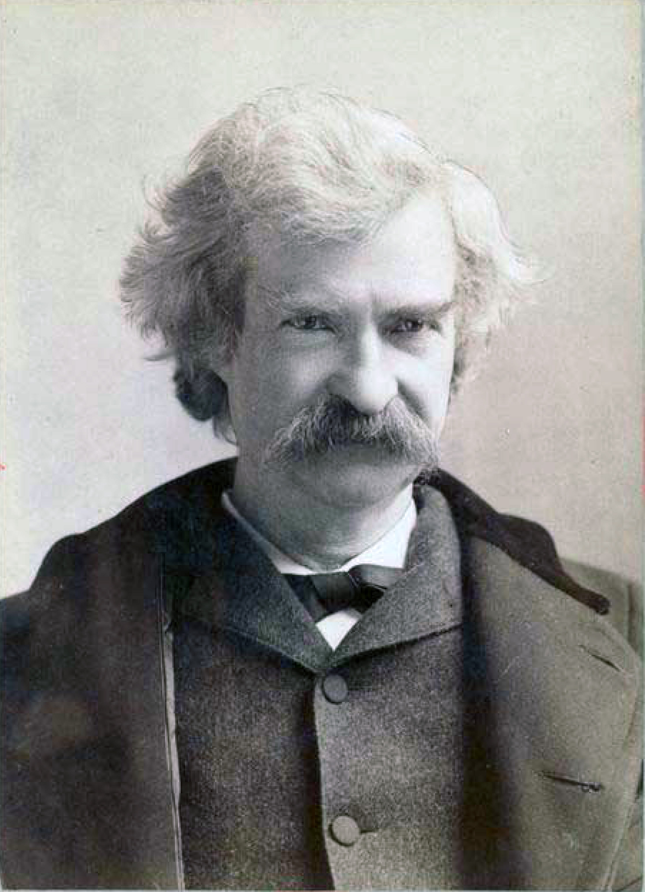 Mark Twain in Middle Life